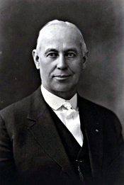 Frank H. Foss, US Representative from Massachusetts